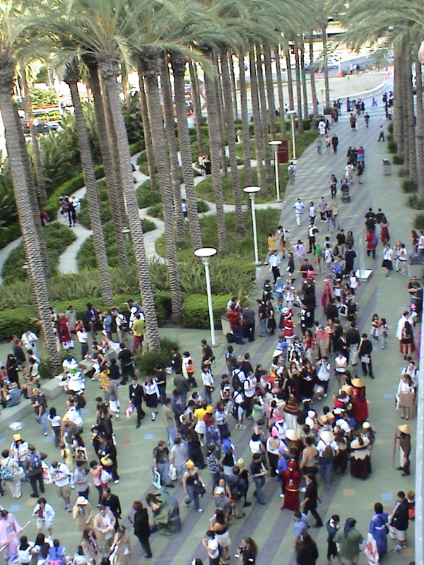 Picture taken at Anime Expo 2004 from the roof of the Anaheim Convention Center.